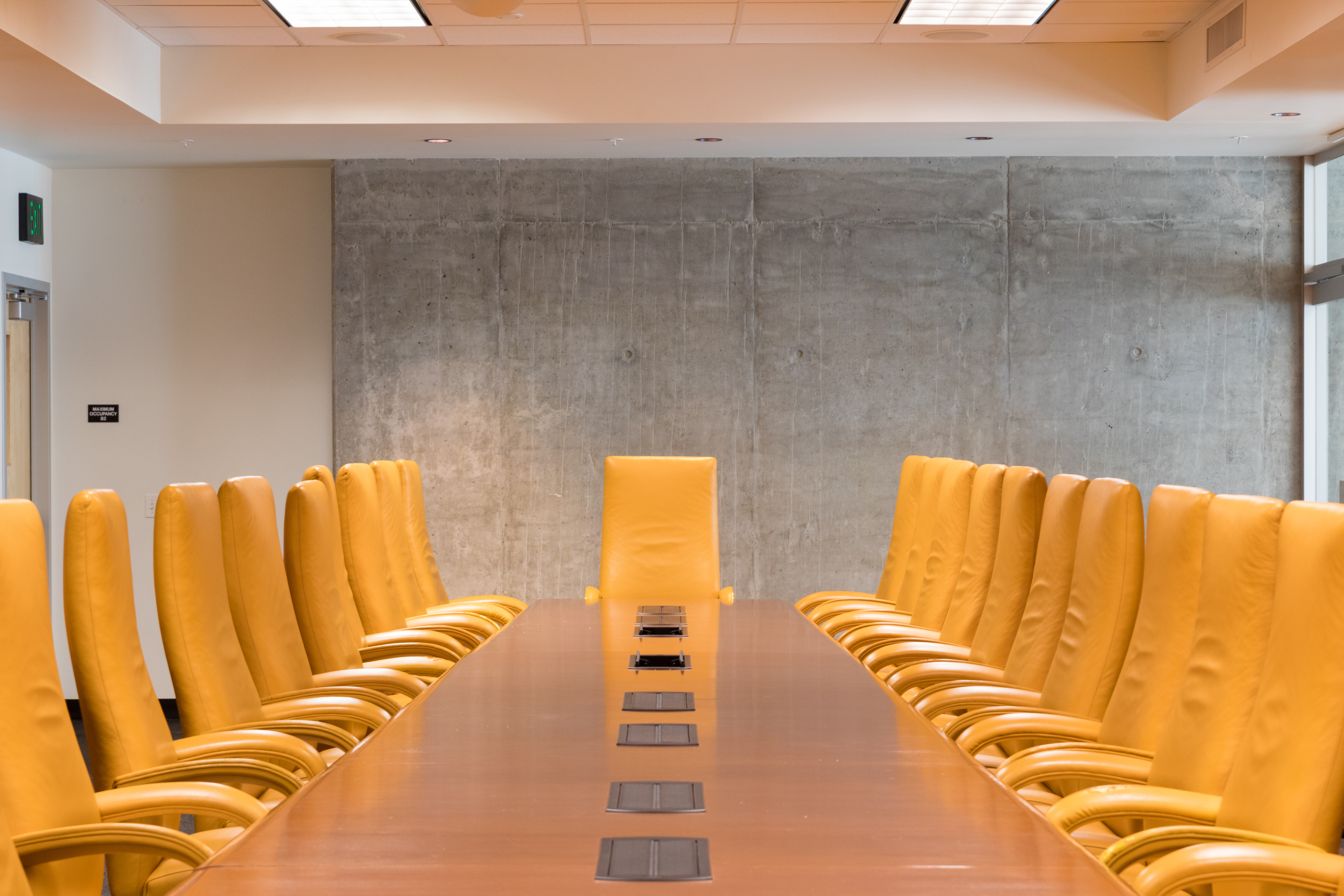 Board room at the Walter Cronkite School of Journalism and Mass Communication, Arizona State University, Phoenix, Arizona